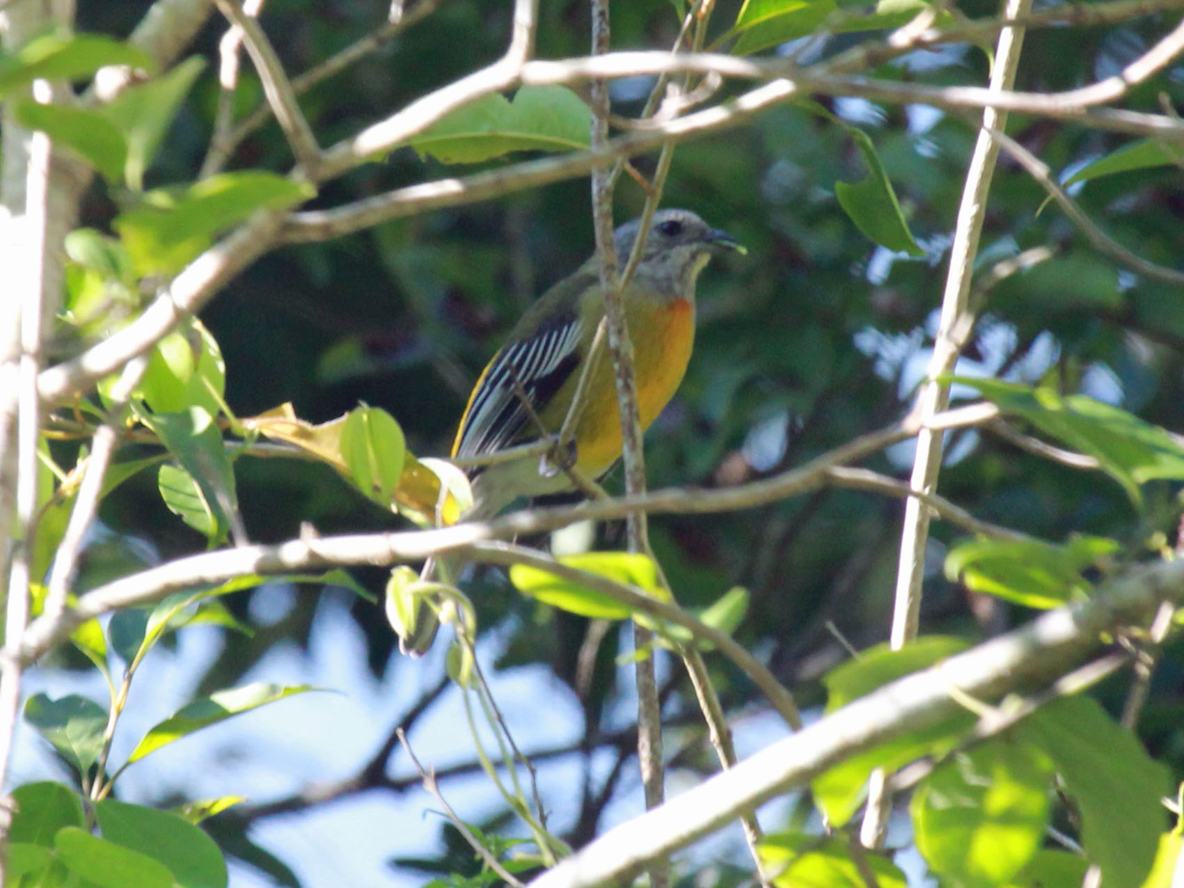 Female Jamaican Spindalis (Spindalis nigricephala) - Blue Mountains, Jamaica